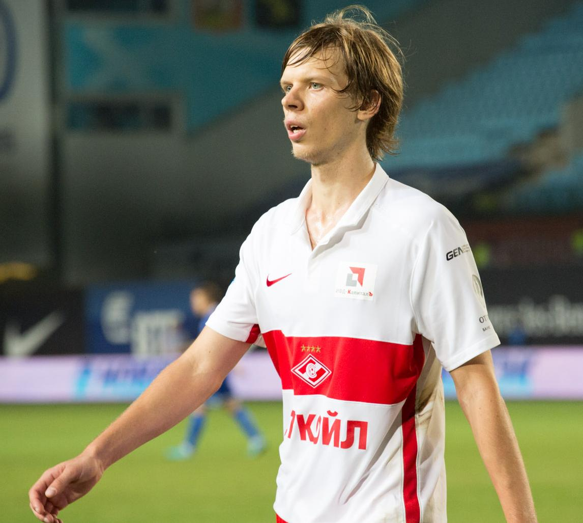 Ivan Khomukha playing for FC Spartak-2 Moscow against FC Dynamo Moscow.